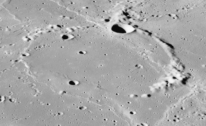 Oblique view of Opelt, on the moon, facing south. Sun elevation 14 deg., spacecraft altitude 119 km.